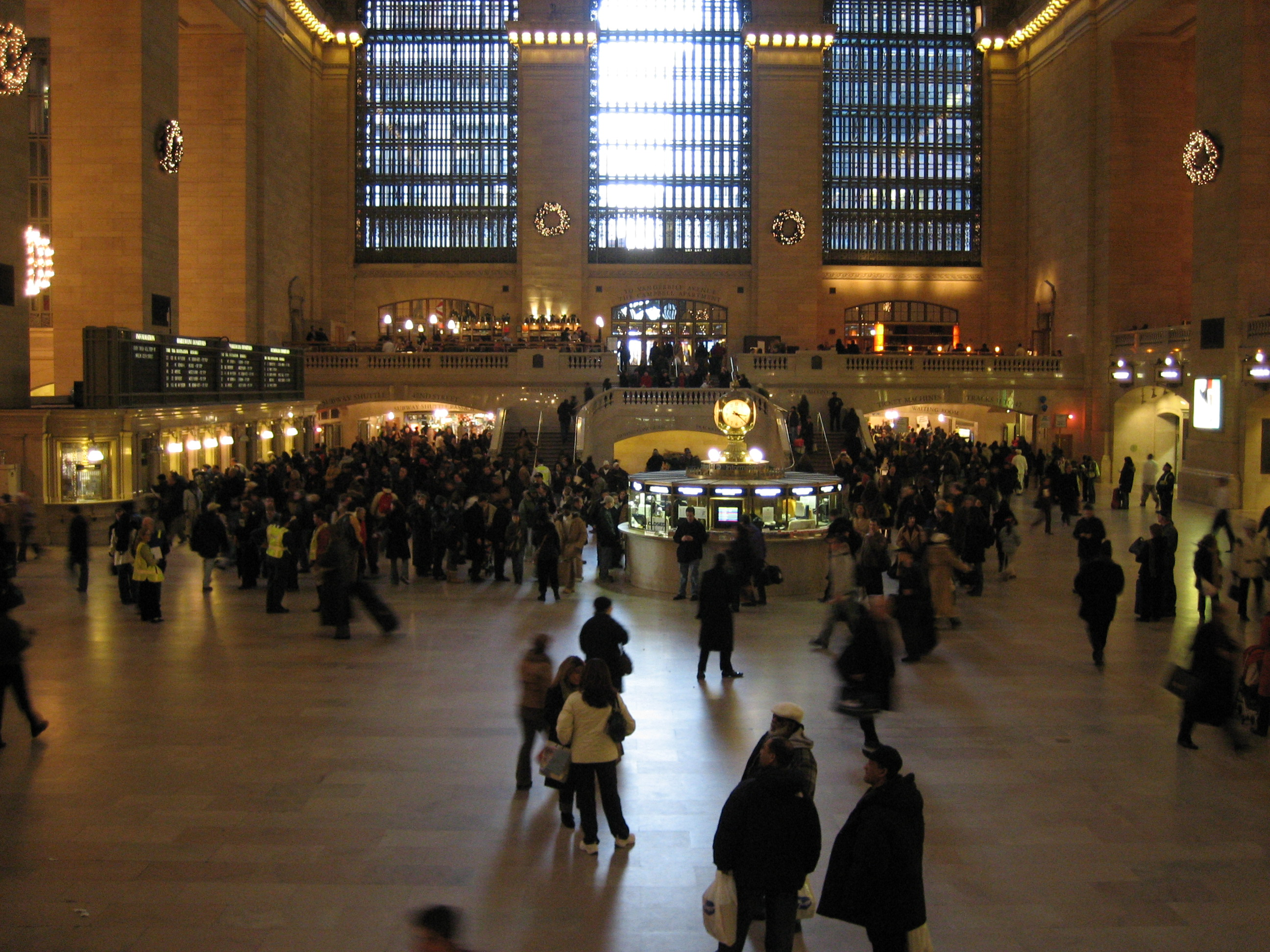 Grant Central Terminal main concourse, with additional traffic due to the 2005 New York City transit strike